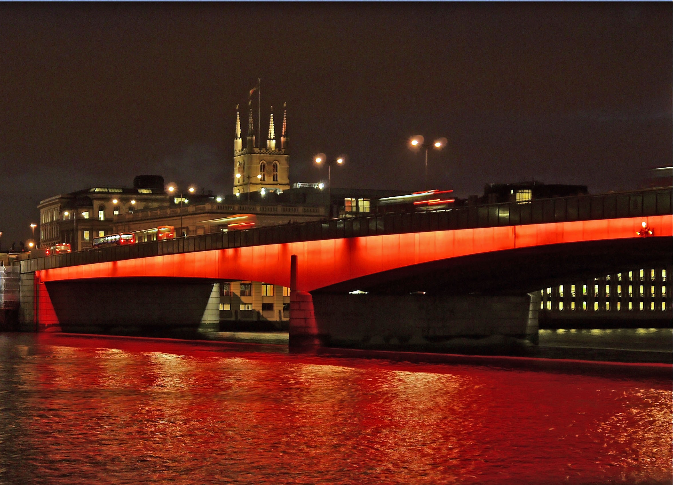 Another view of London at night. Southwark Cathedral and London Bridge with the Thames lit up by red light. Several red buses happened to cross the bridge together as I took this.